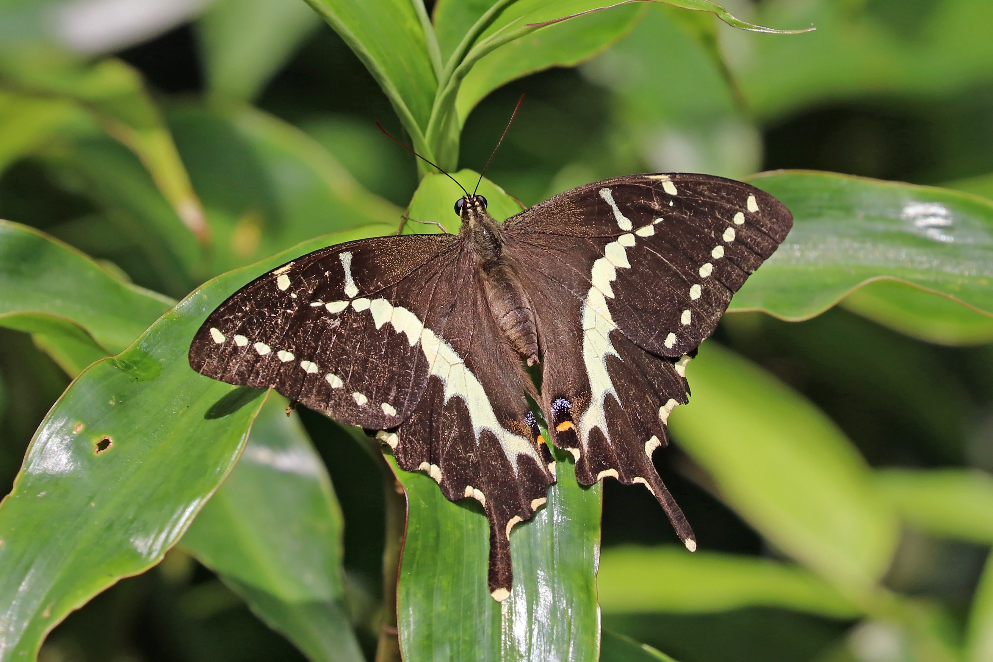 Swallowtail (Papilio mangoura) female, Montagne d’Ambre National Park, Madagascar